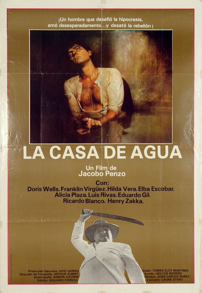 The House of Waters: official poster